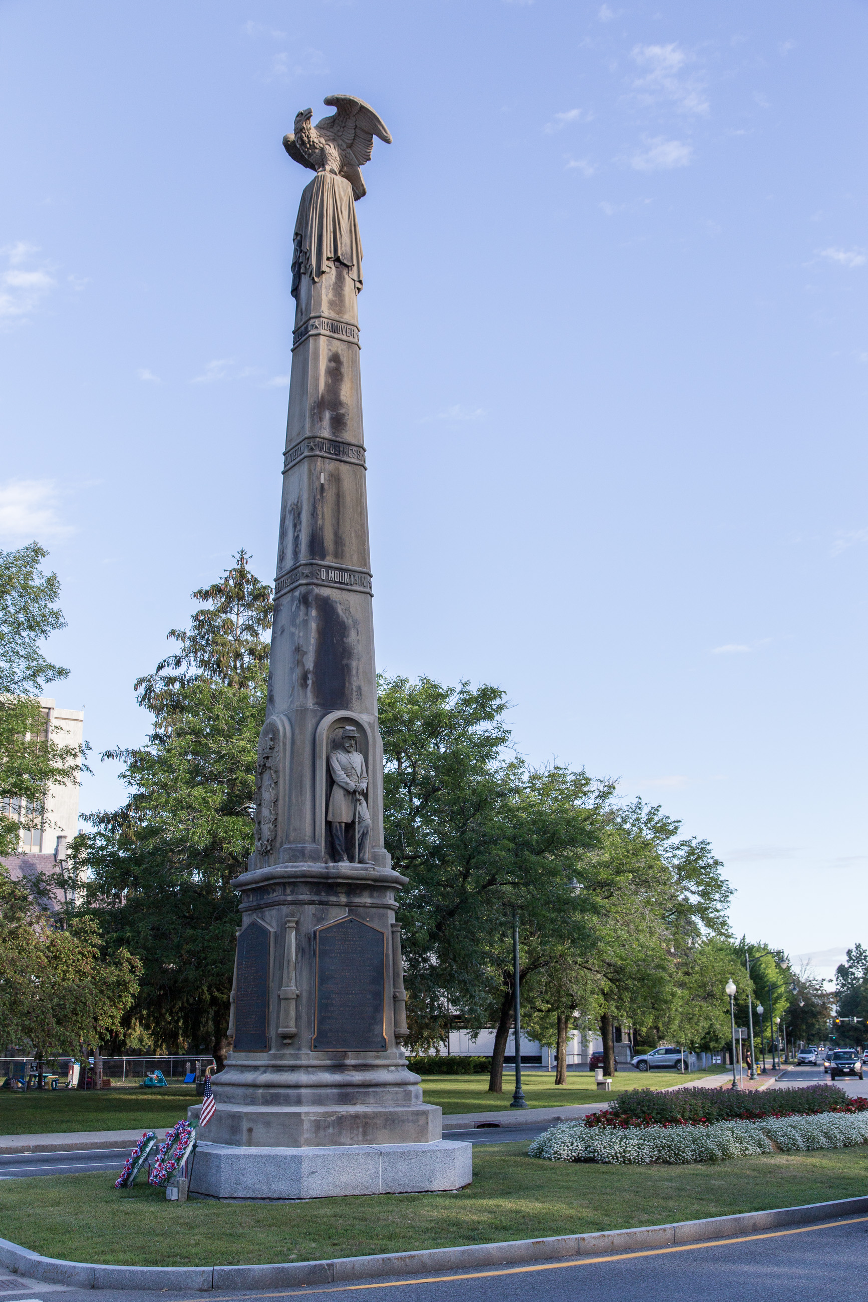 Civil War monument located near City Park at the intersection of Bay and Glen Streets, Glens Falls NY.